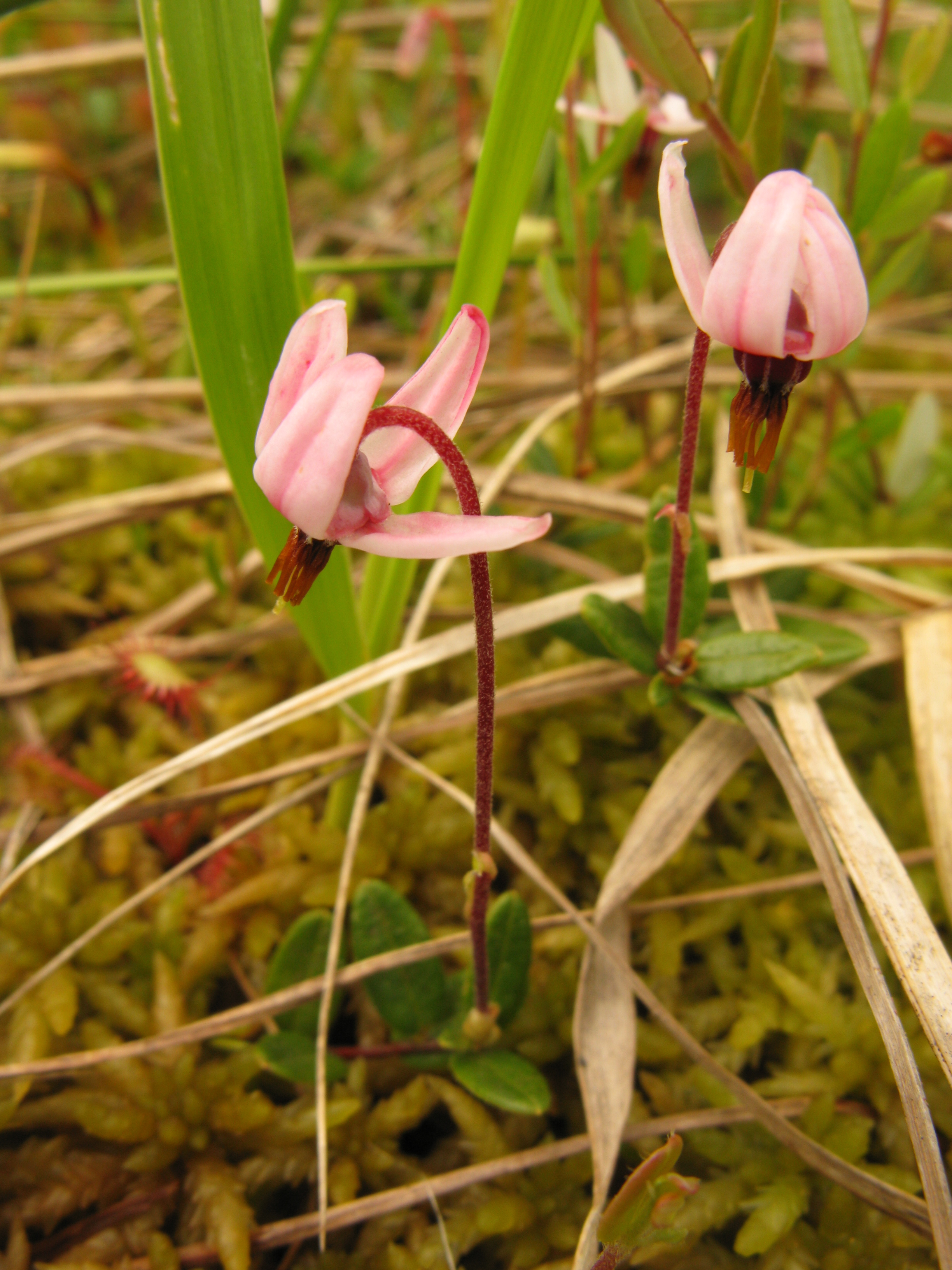 Vaccinium oxycoccos,Aizu area,Fukushima pref.,Japan